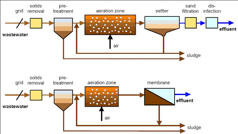 Schematic of conventional activated sludge process (top) and membrane bioreactor (bottom